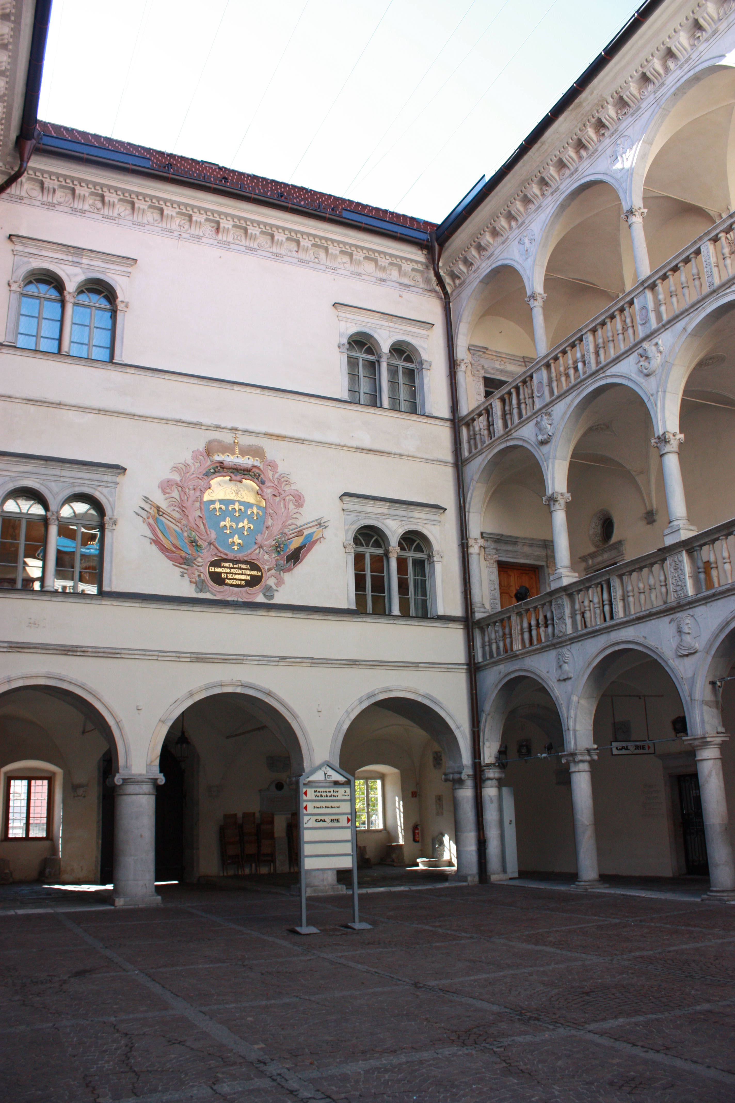 Schloss Porcia - Arcade-court Locality: Spittal an der Drau Community:Spittal an der Drau